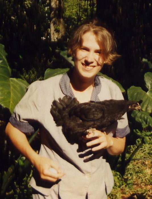 Helen Hill holding chicken "Daisy" at Easter Party in the Carrollton neighorhood of New Orleans